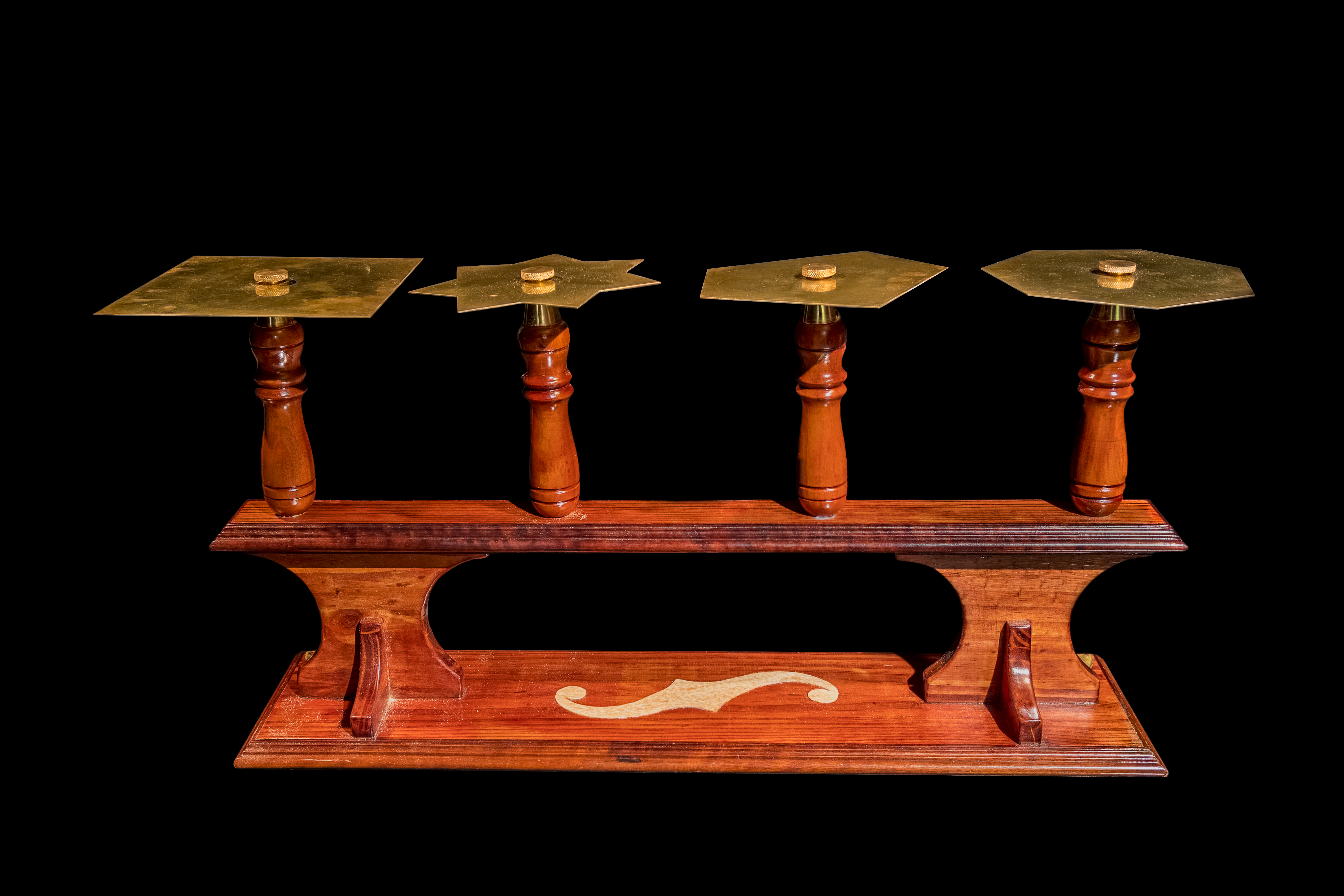 Mathematical object for illustrating Chladni figures on display at Matemateca IME-USP (pt)